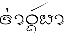 Lanna script – Tha Wang Pha is a district (Amphoe) in the central part of Nan Province, northern Thailand.